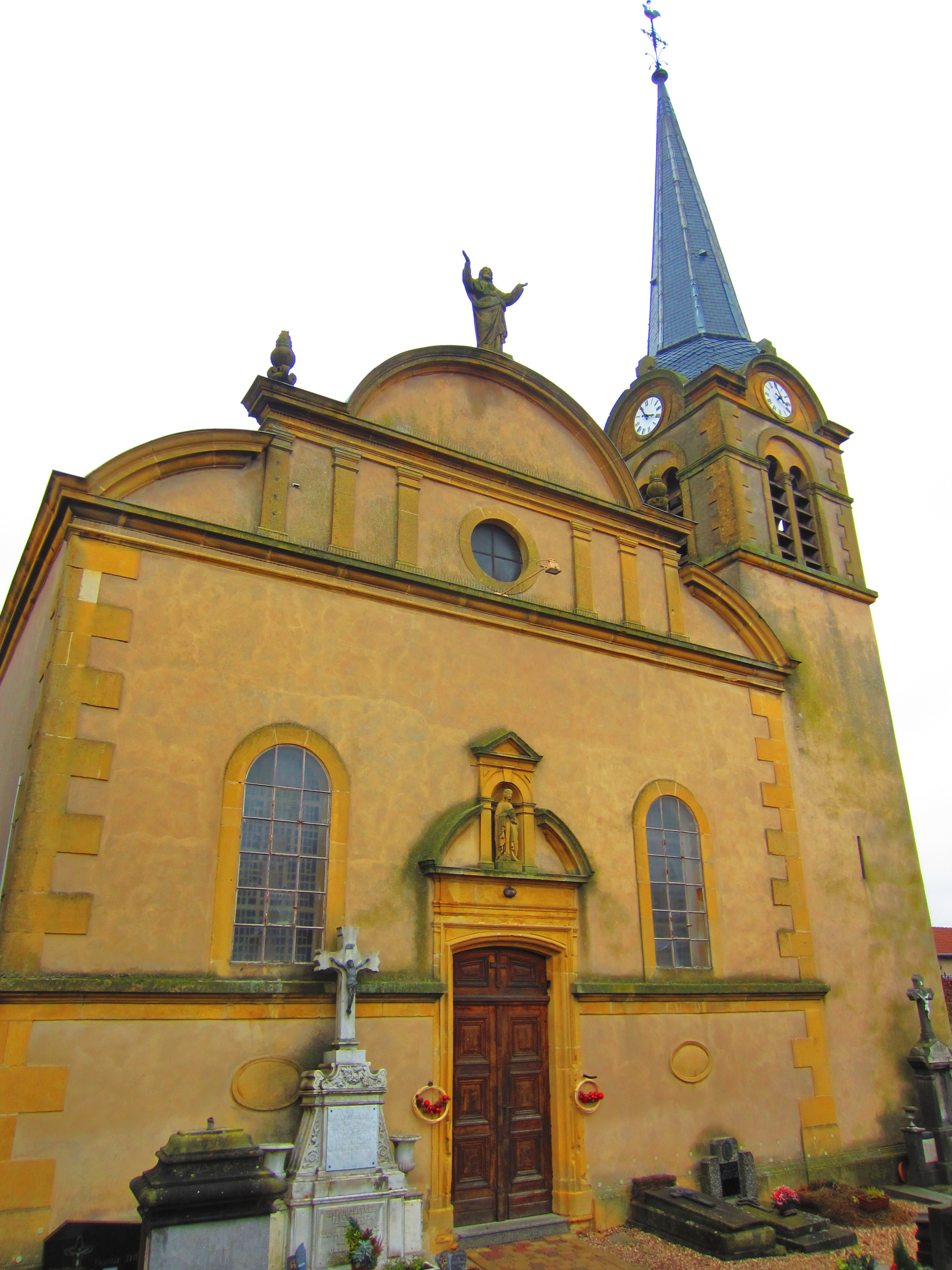 Description eglise Courcelles Nied Date9 January 2012Sourcemon appareil photoAuthorAimelaimePermission (Reusing this file) eglise Courcelles Nied